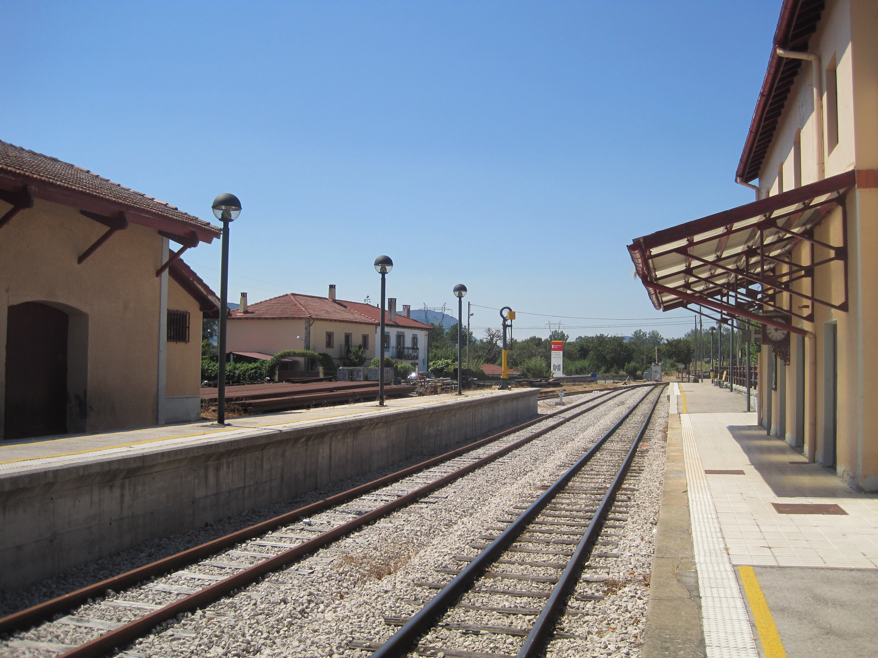 Estación de Feve de Espinosa.